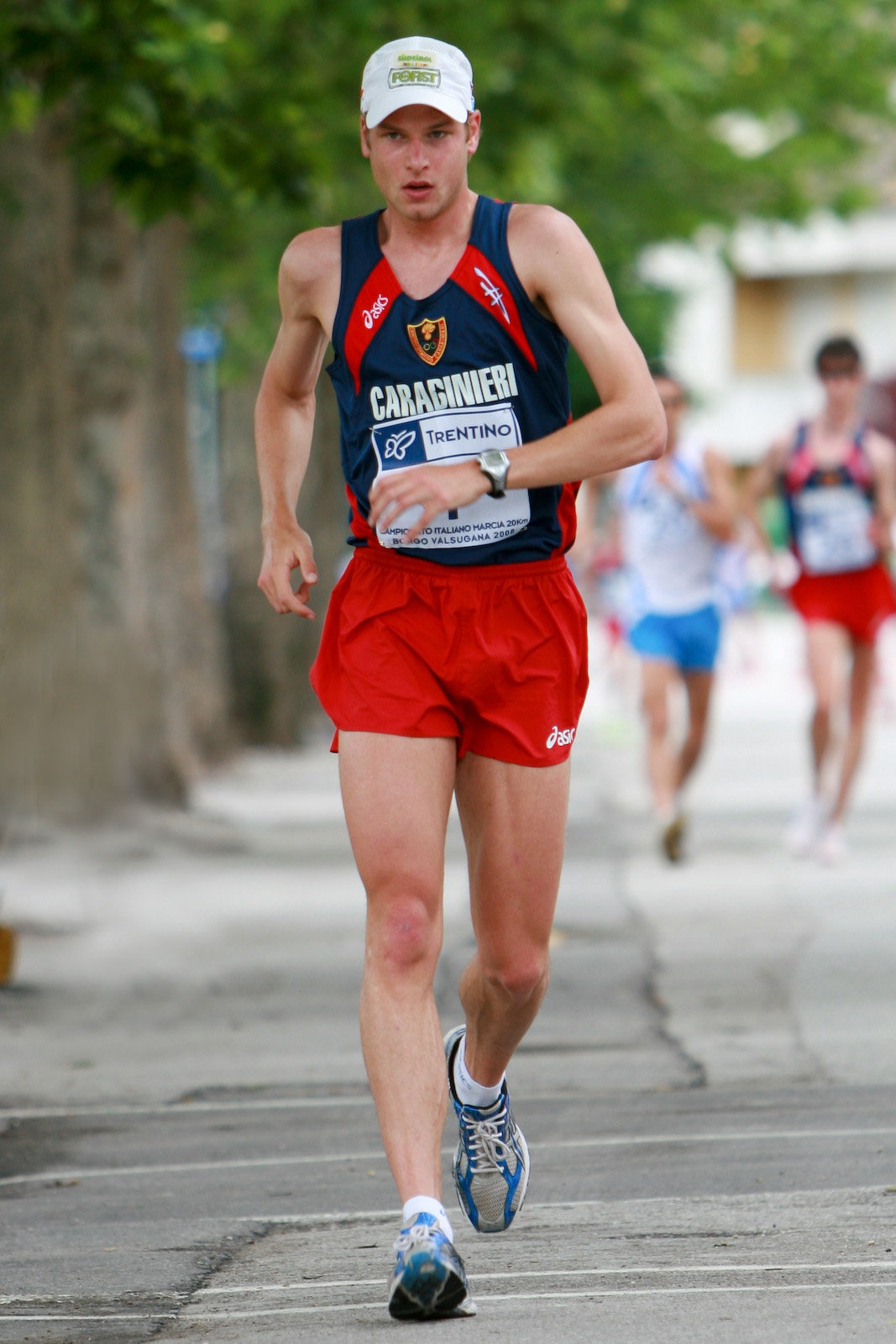 Alex Schwazer in action during the 20km racewalking italian championship in Borgo Valsugana